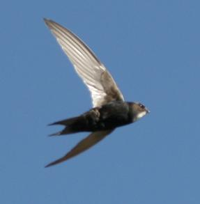 White-rumped swift (Apus caffer) in flight Photographed by Neil Gray on 26 February 2006 in Karoo National Park, South Africa 6